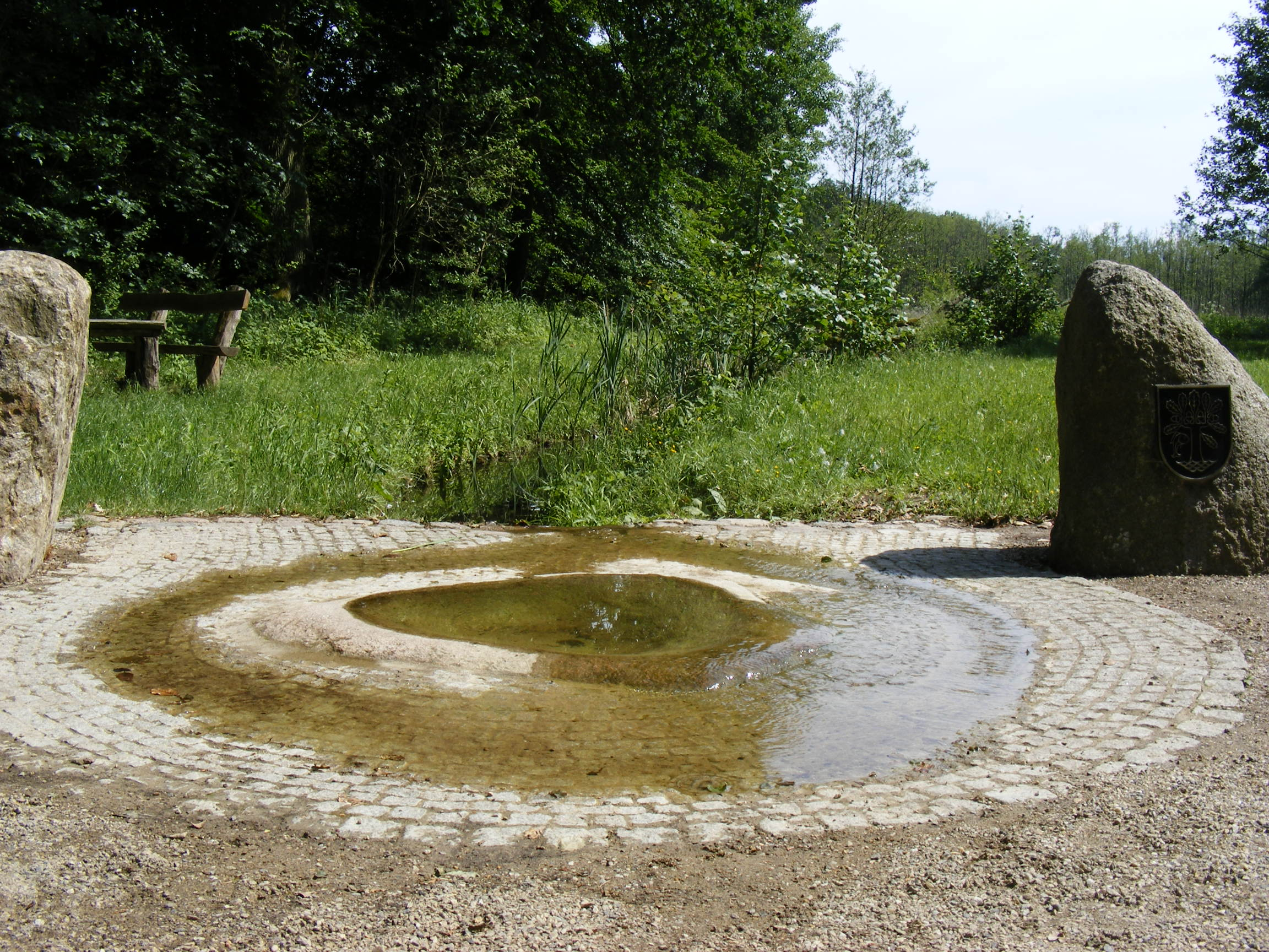 The spring of the Havel